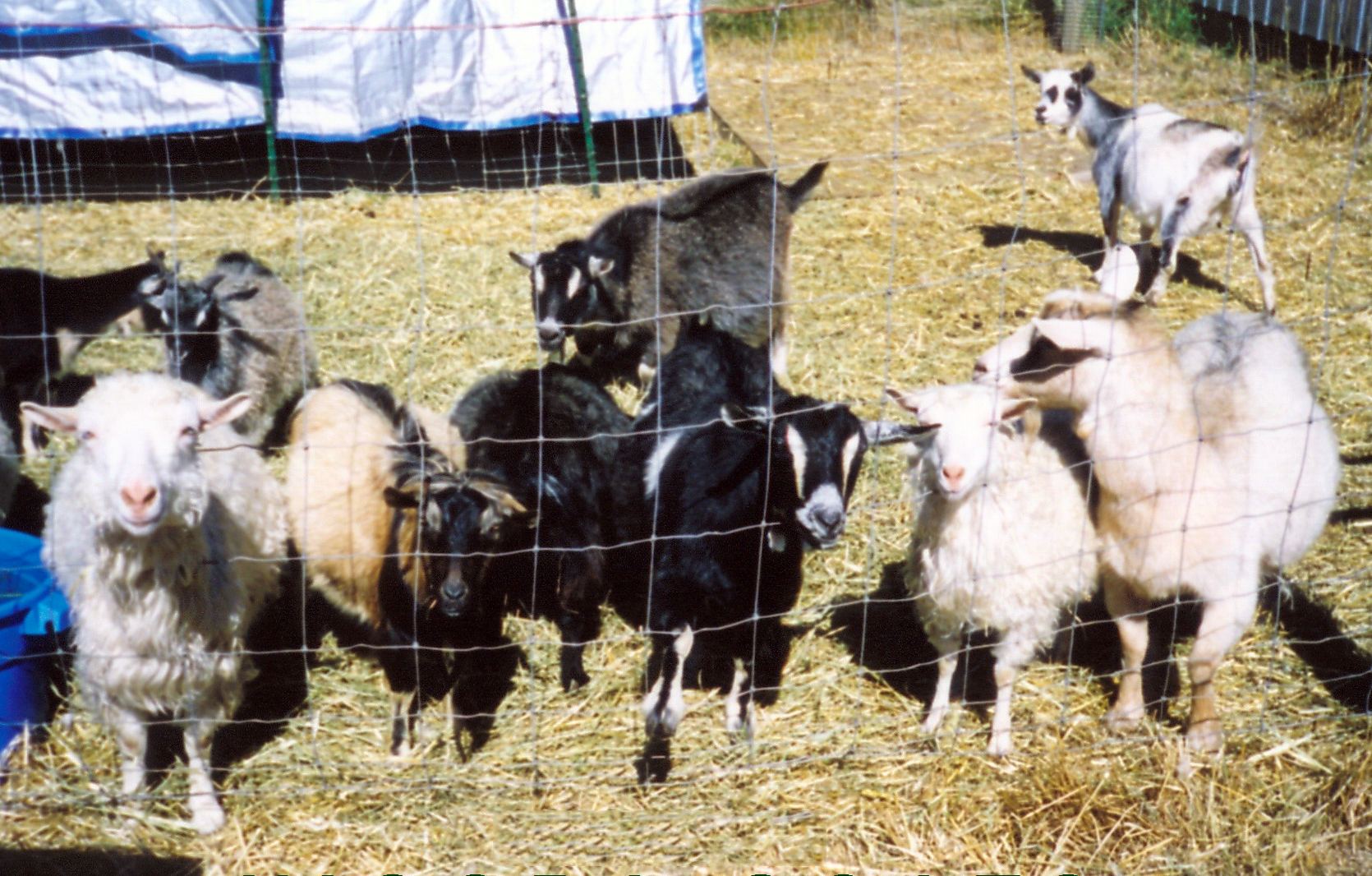 Early example of Nigora goats (born between 1989 and 1999) both in and out of fleece. "Cocoa Puff of Skyview", The earliest known Nigora (black doe with swiss trim, upper mid photo) was appx. 13-years-old in this picture taken in 2002.